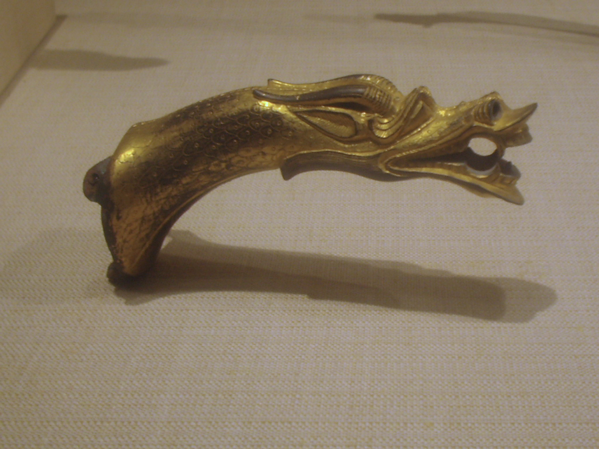 A gilded bronze handle (with traces of red pigment) in the shape of a dragon's head, made during the Chinese Eastern Han Dynasty (25–220 AD).